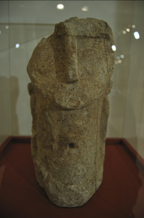 Punic idol found in Cartagena (Spain). Archaeological Museum of Cartagena.